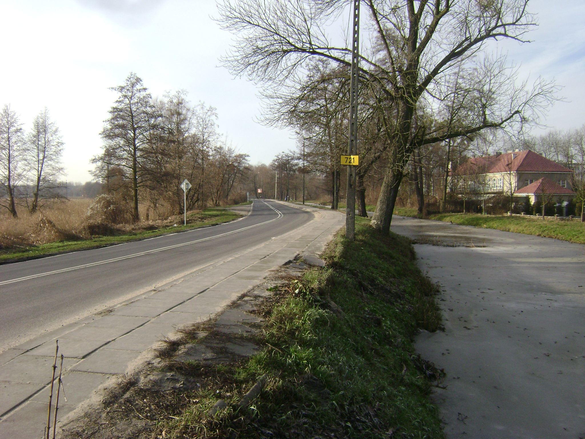 Poland. Konstancin-Jeziorna. Wojska Polskiego Avenue